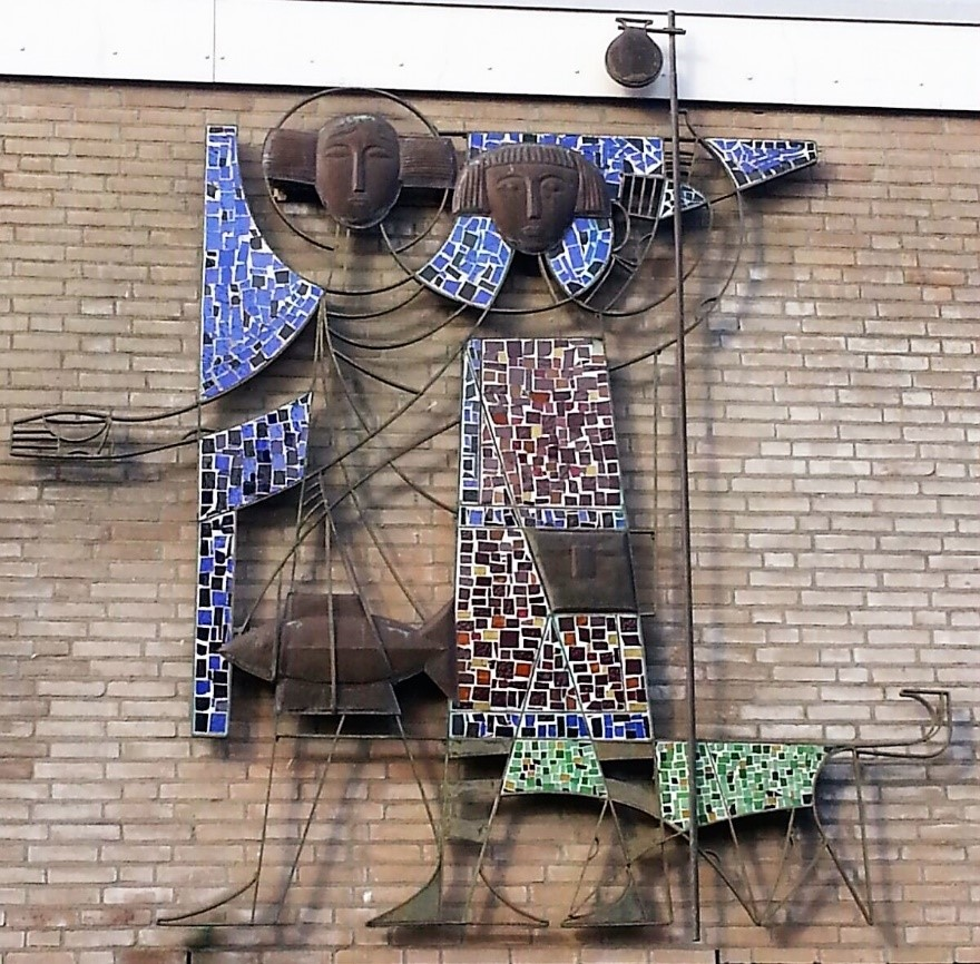 Reliëf met mozaïek, voorstellend Sint Raphael met Tobias en hond